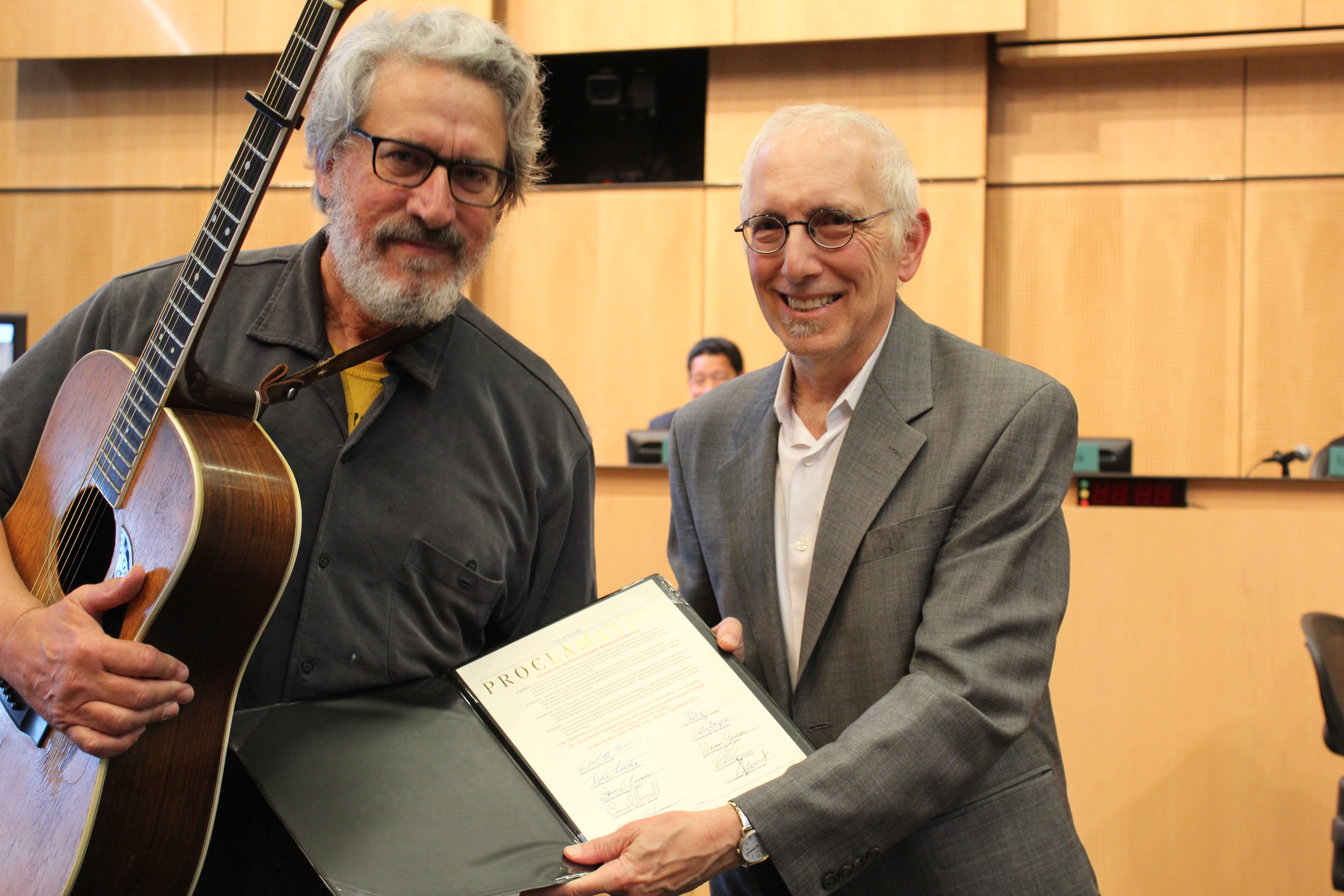 Councilmember Licata presents Jim Page Proclamation recognizing 40th anniversary of street musician ordinance and 2014’s Busker week